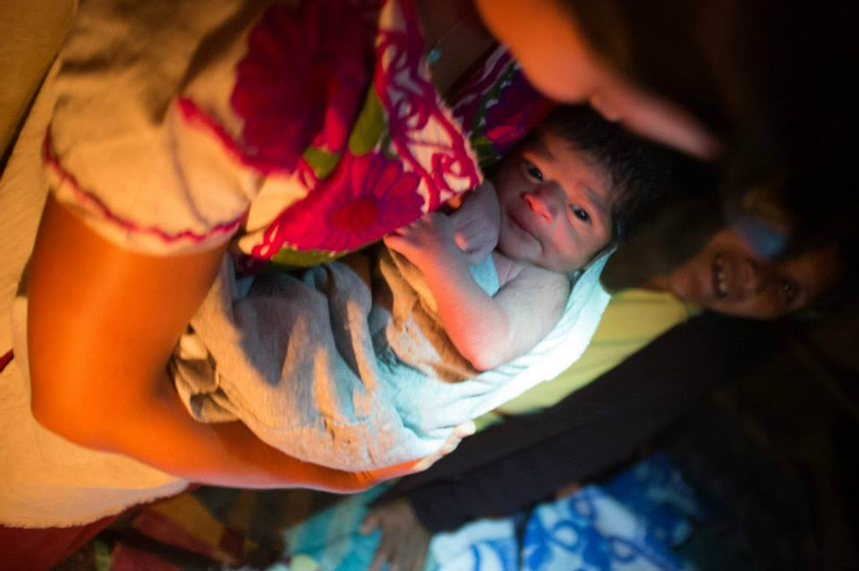 Health&Help